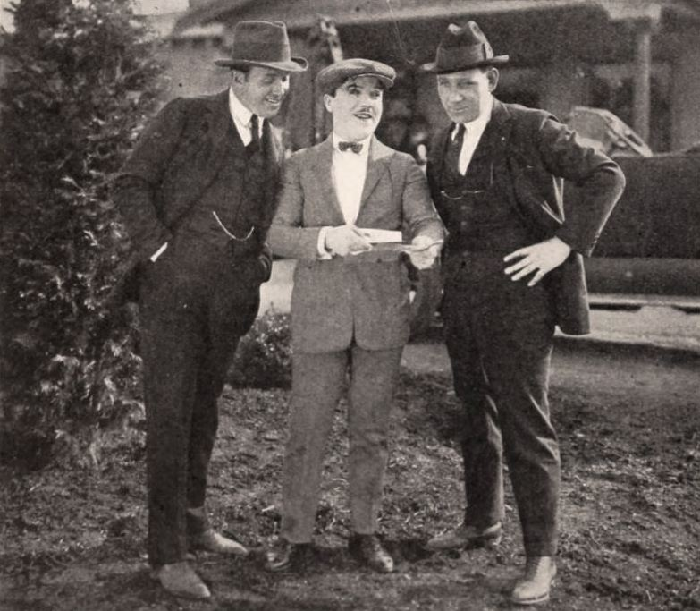 Jack Warner, Monty Banks, and Sam Warner, on page 84 0f the January 28, 1922 Exhibitors Herald.